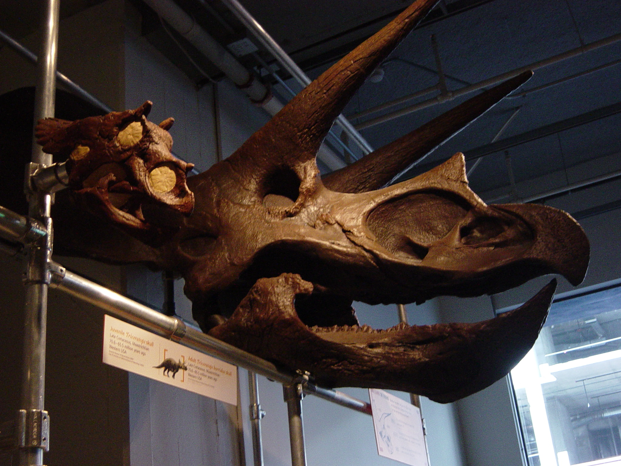 Casts(?) of fossilized Triceratops skulls, juvenenile and adult, exhibited at the temporary Howard st. location of the California Academy of Sciences. Image by User:Leonard G.